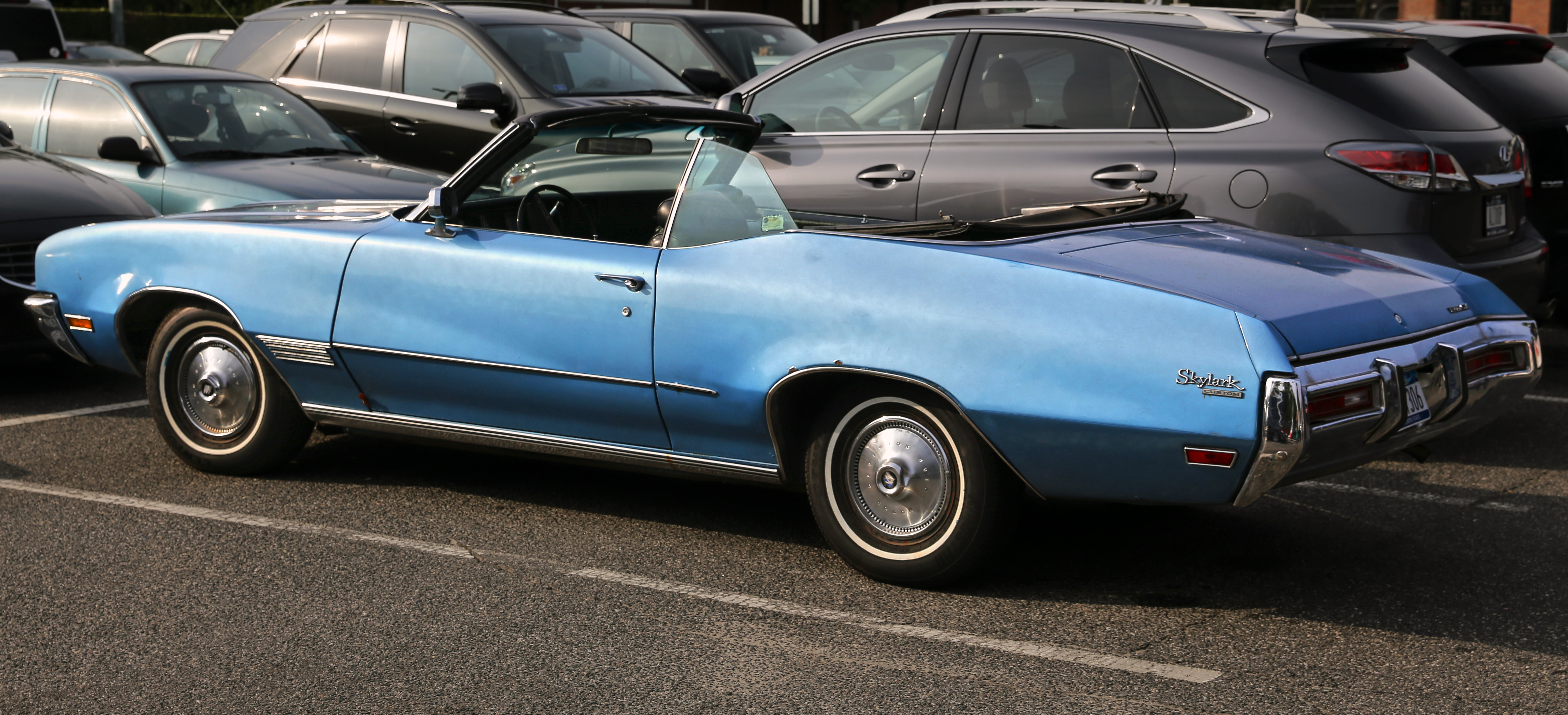 A 1971 Buick Skylark Custom convertible in East Hampton, NY. Built in Flint, MI.